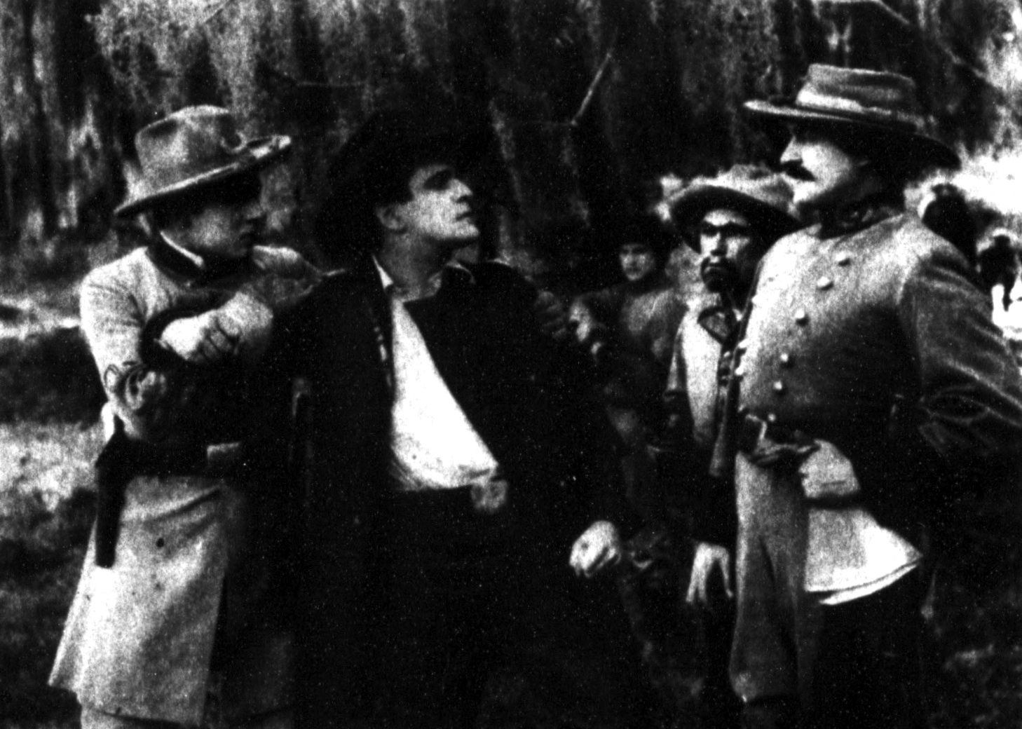 Scene from the American historical film The Heart of Maryland (1921) as printed in a newspaper.